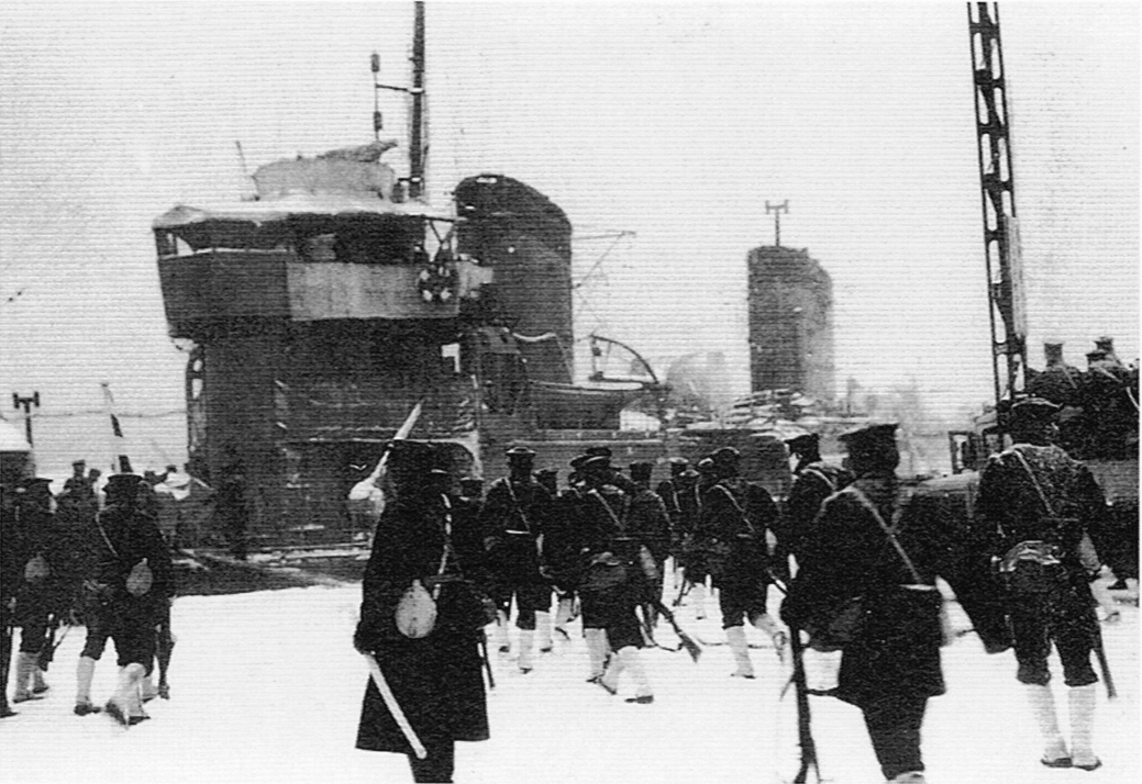 IJN Land Force of Yokosuka arriving at Shibaura, Tokyo, following the outbreak of the "February 26 Incident".